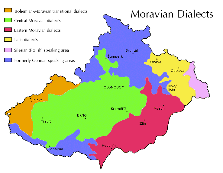 Derivative work of freely-licensed (for any purpose but not public domain, if I understand the wording) work available at German Wikipedia Datei:Maehrisch.png, translating names to English. Map of Moravian dialects. Orange = Moravian/Bohemian transitional dialect Green = Central Moravian dialect Red = East Moravian dialect Yellow = Lach dialects Pink = Silesian Lechitic (Polish-related) language Blue = formerly German-speaking areas